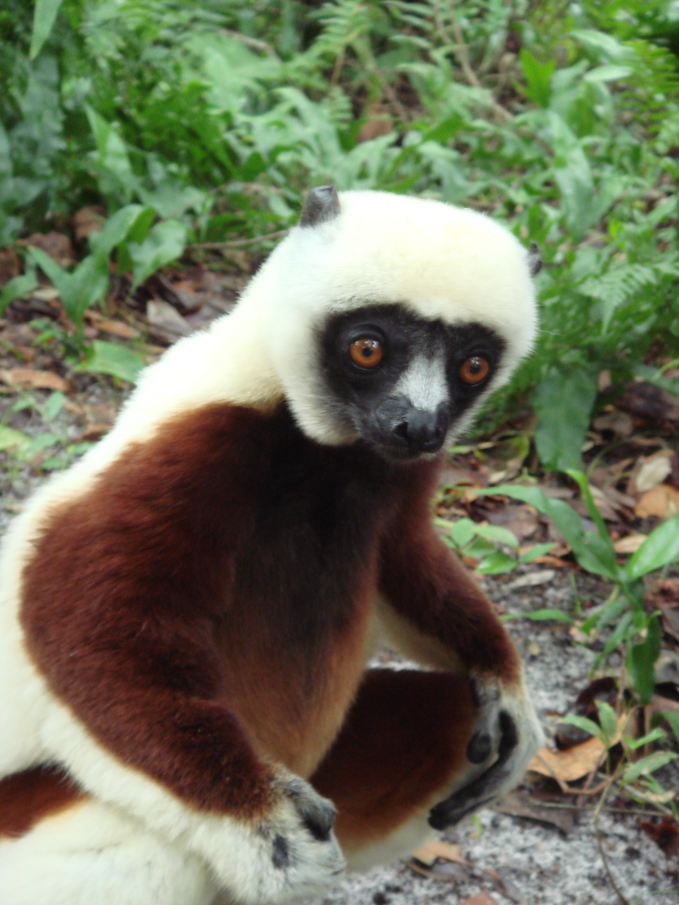 Coquerel's Sifaka